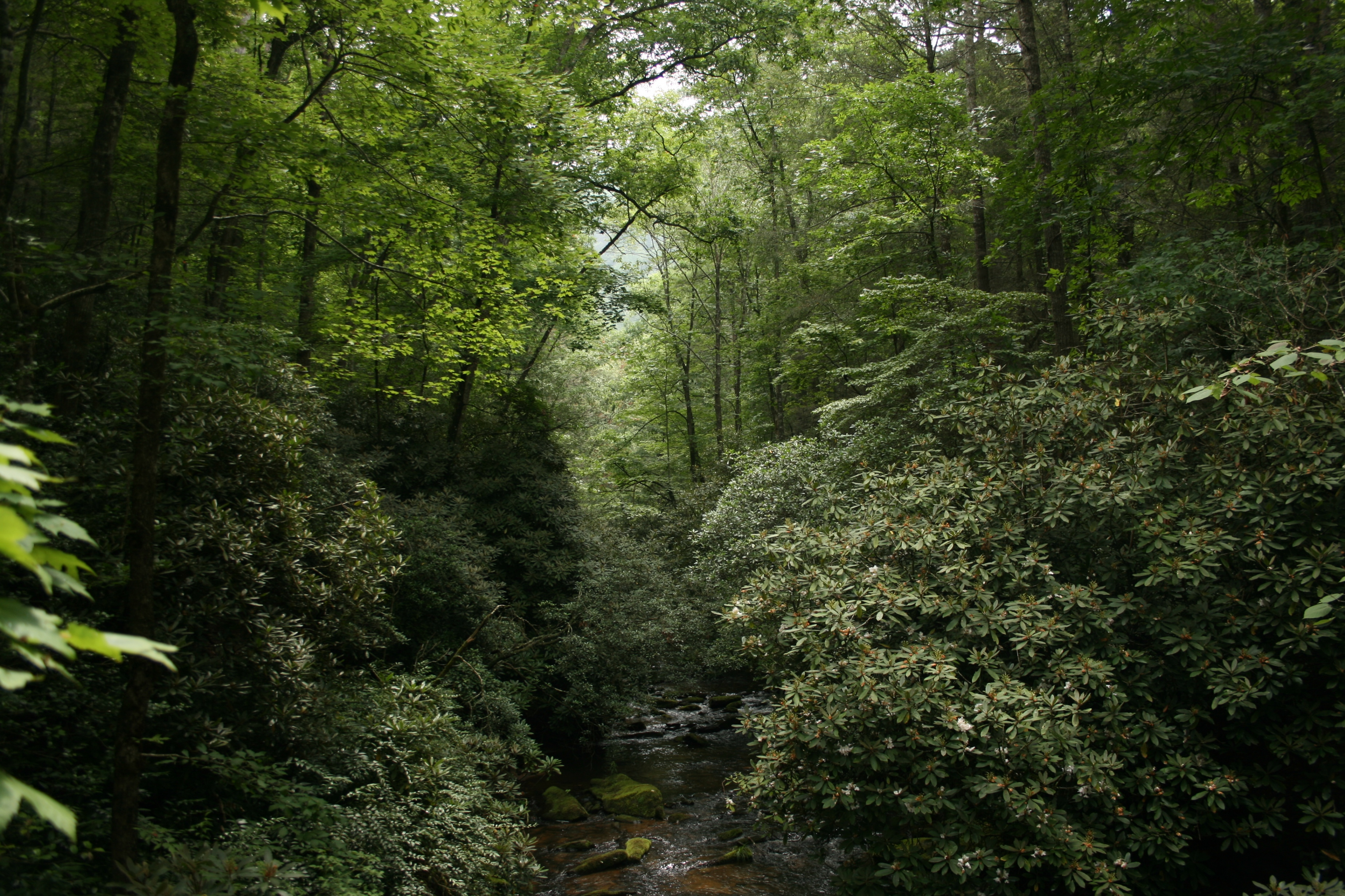 East Fork of the Chatooga River, immediately upstream of confluence with Chatooga River